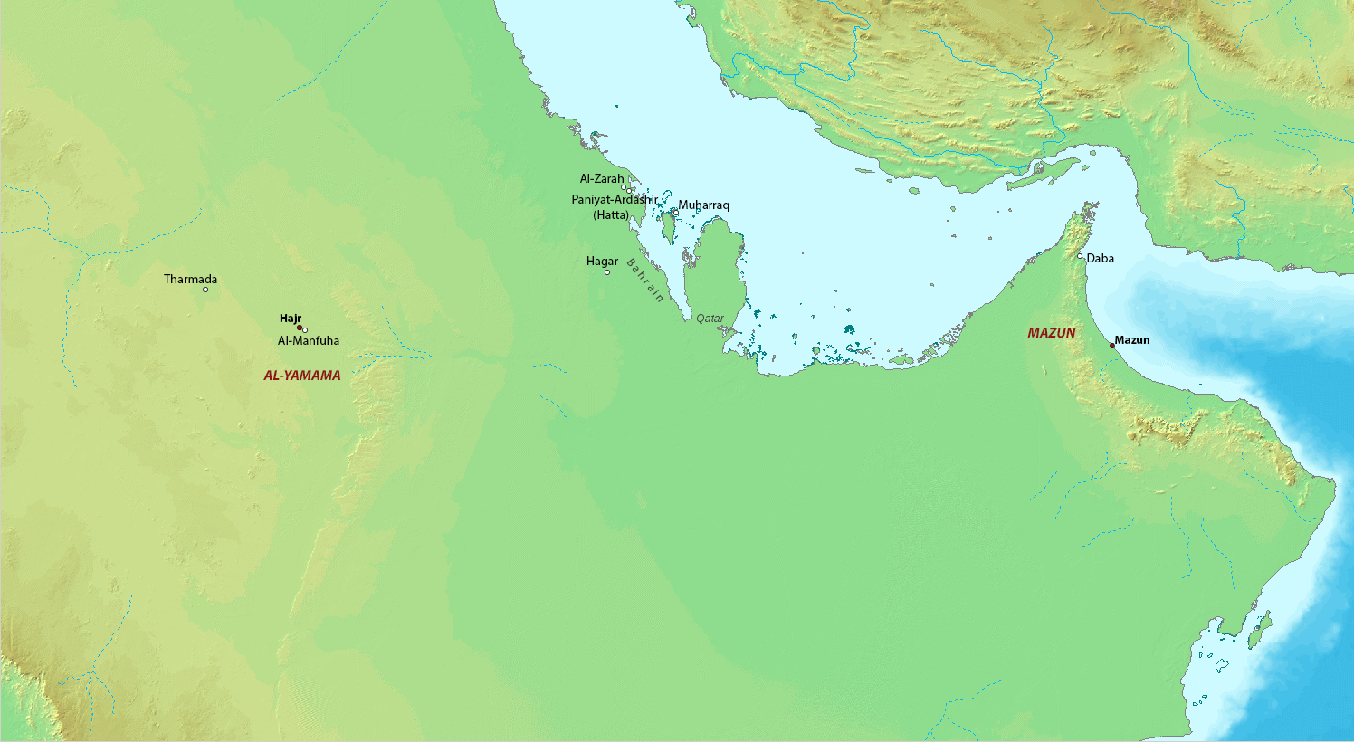 Eastern & Central Arabia in the 6th-century. During this century Sasanian and their vassals, the Lakhmids, had extended their authority over many parts of Arabia, such as Yamama.